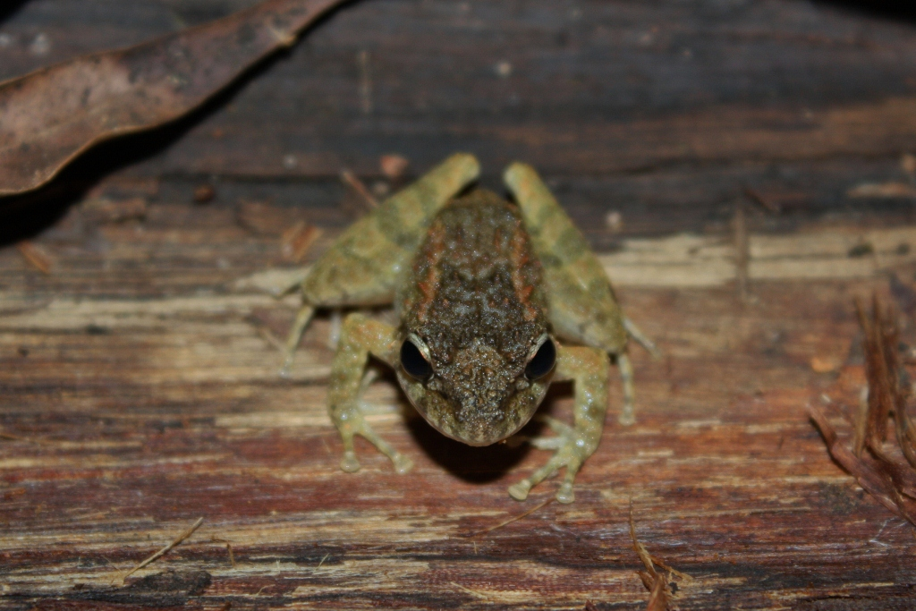 Found in Rajah Sikatuna National Park, I'm uncertain of the id. It could be several Platymantis species that I have since researched and looks very similar to a Leptolalax species that I am more familiar with.